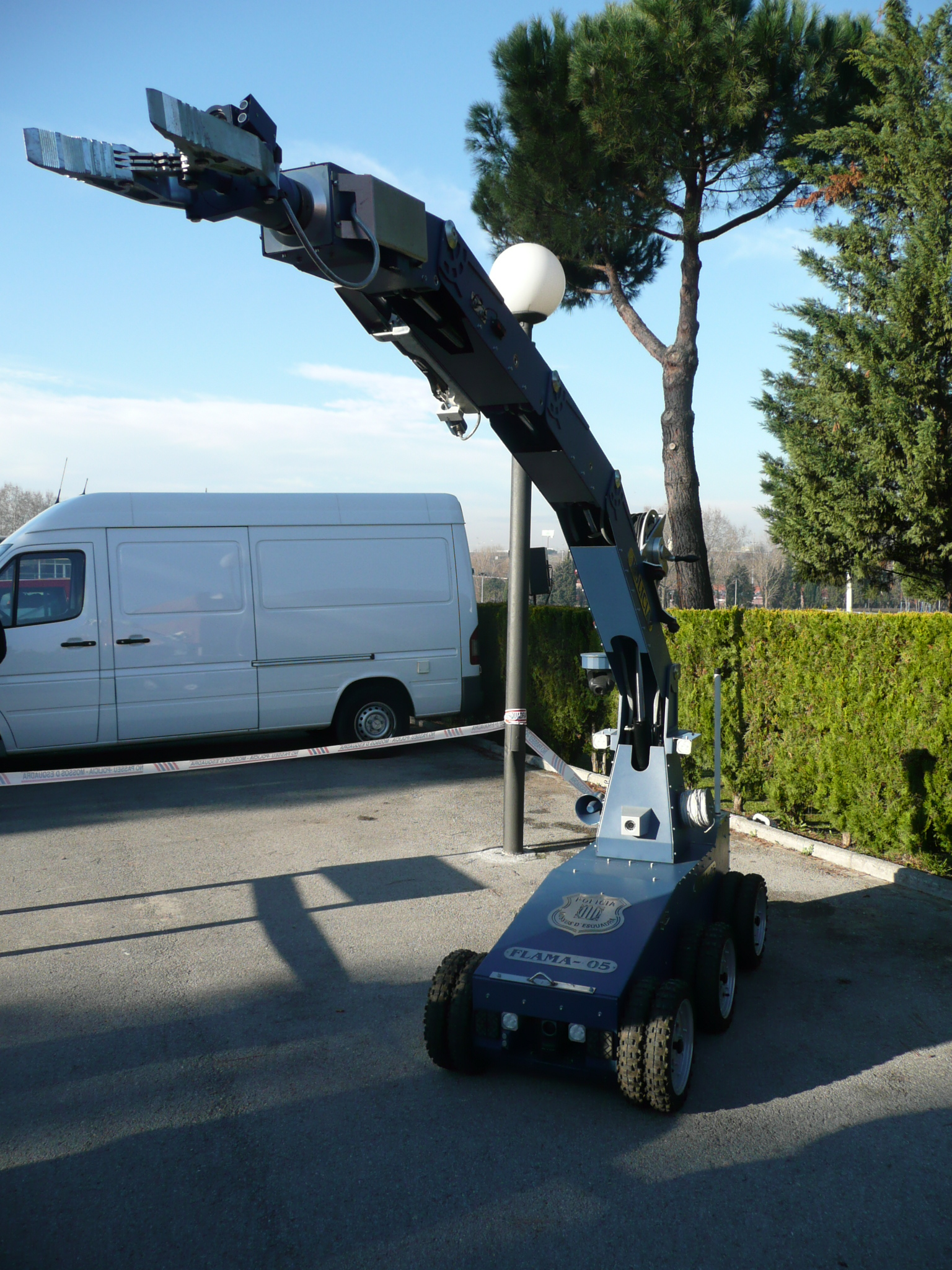 Robot TEDAX of the Catalan police, model AUNAV.